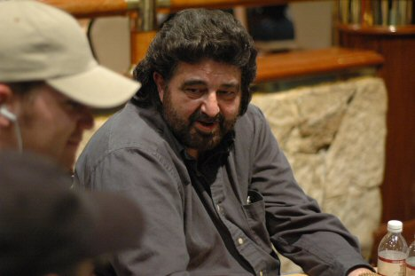 Paul "Eskimo" Clark playing in the World Poker Tour / PPT / Mirage Poker Showdown 2005.